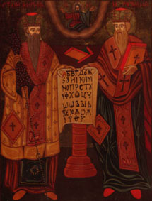 Saints Cyril and Methodius, together with the Cyrillic alphabet. This is a scan of a Bulgarian icon which I acquired in Sofija. Evertype 18:29, 24 May 2006 (UTC)